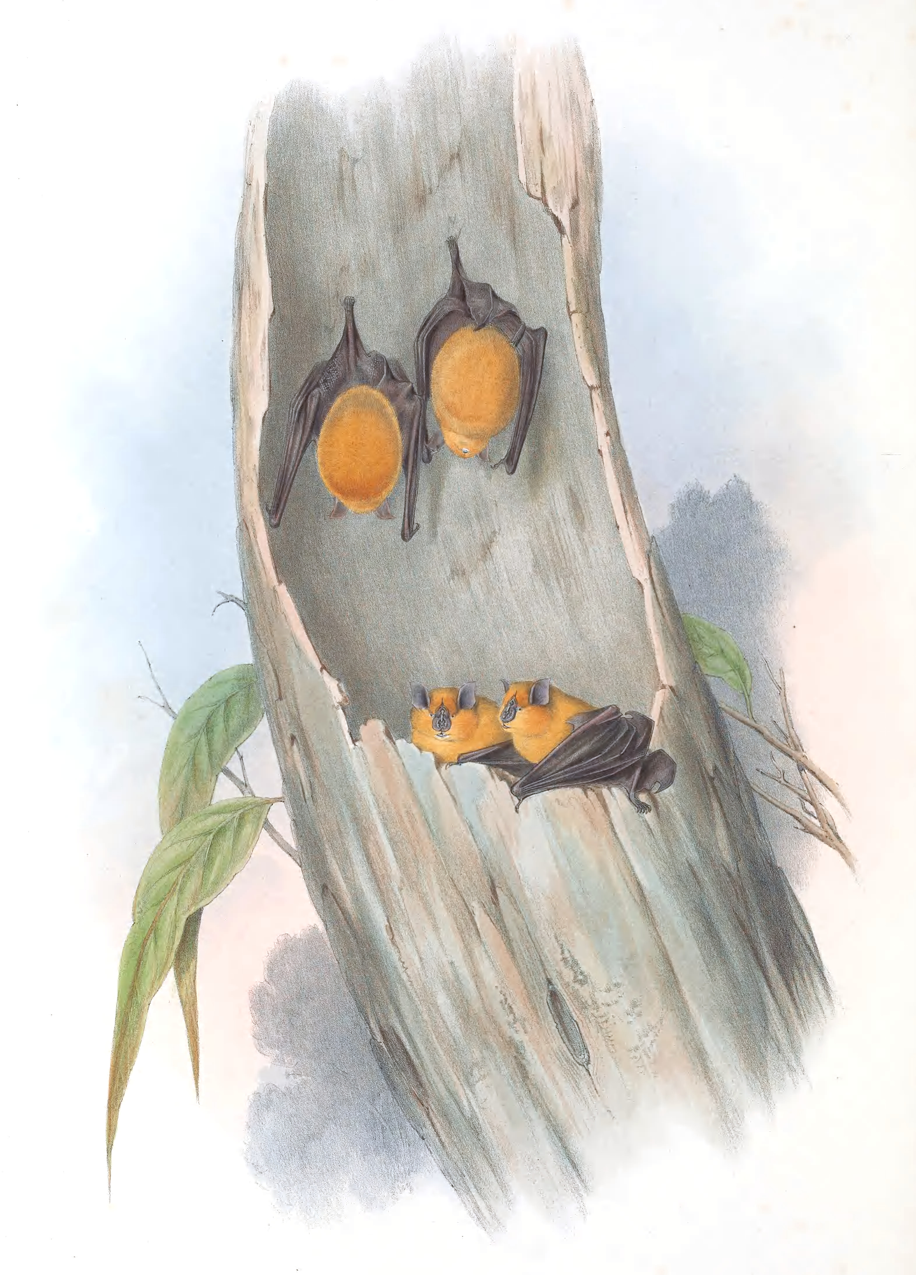 Plate in Gould's Mammals of Australia volume 3. The title is the caption in that work, and may be a synonym. The file was uploaded with the current name in the category, a crop and other adjustments were made to the image. The caption and other details were removed.